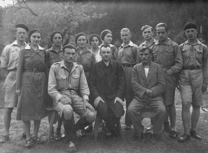 Friends of heart in Pidlute 1931